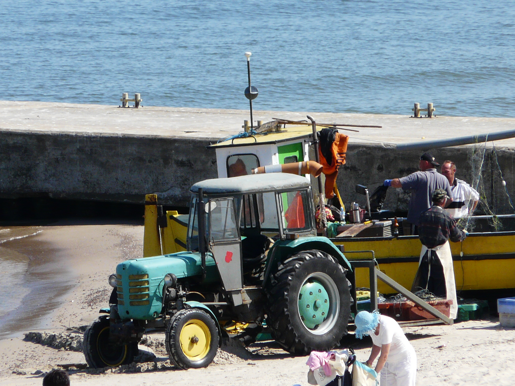 Ursus C-4011 traktor in Niechorze beach, Poland.